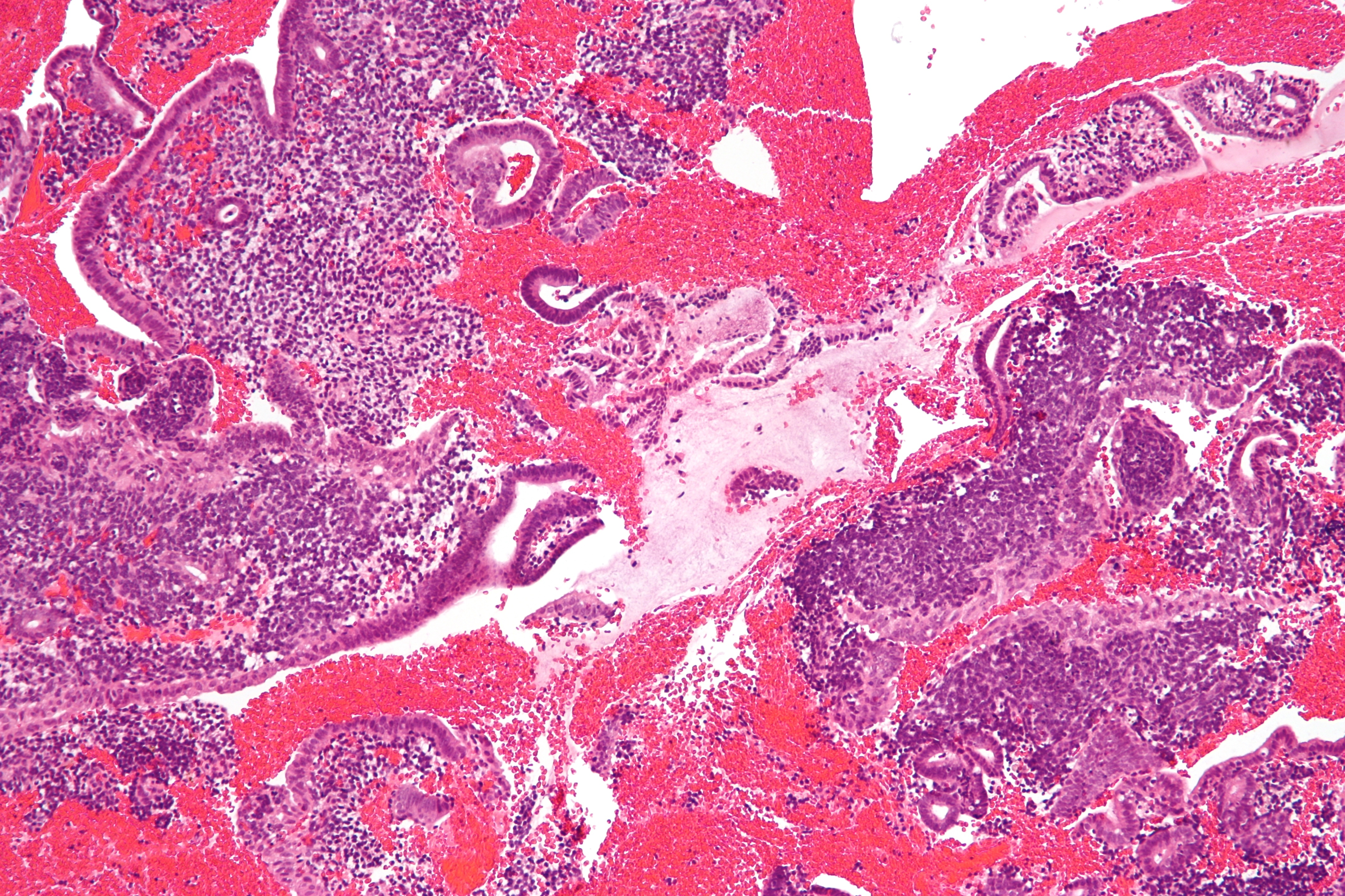 High magnification micrograph of endometrial stromal condensation. Endometrial biopsy. H&E stain. Stromal condensation is a feature of menstruation. It may mimic a small blue round cell tumour. Description: Condensed endometrial stroma is seen on the right and non-condensed endometrial stroma on the upper-left. Columnar endocervical epithelial, with an abundant light-pink cytoplasm, is seen centrally and adjacent to pale endocervical mucus. Endocervical cells are a common finding on endometrial biopsies, as the physician obtaining the tissue sample invariably scrapes some off in the process of accessing the uterine cavity. Related images Low mag. High mag.